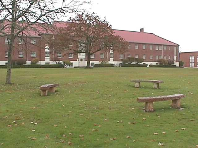 benches in front of Hillcrest YCF